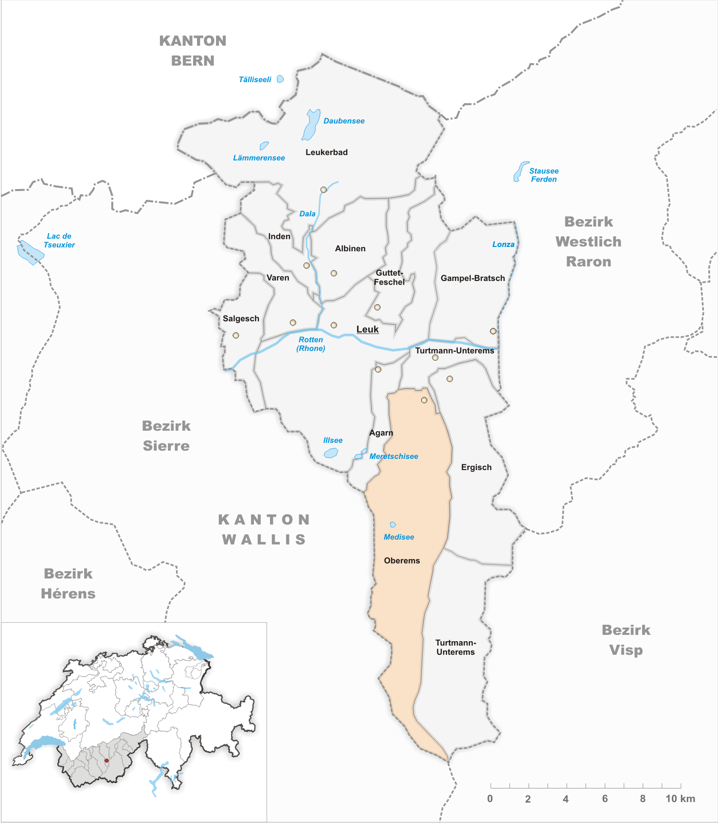 Municipality Oberems